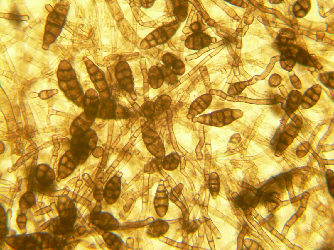 Alternaria alternata spores magnified 160X. Identified using Barnett, H. L. & Hunter, B. B. (1998) Illustrated Genera of Imperfect Fungi. APS Press: St. Paul, MN; pp. 132–3 ISBN 0-89054-192-2. Recovered from zinnia (Zinnia violacea Cav.). Host status confirmed using Farr, D. F., Bills, G. F., Chamuris, G. P., & Rossman, A. Y. (1995) Fungi on Plants and Plant Products in the United States. APS Press: St. Paul, MN; pp. 126–7 ISBN 0-89054-099-3.